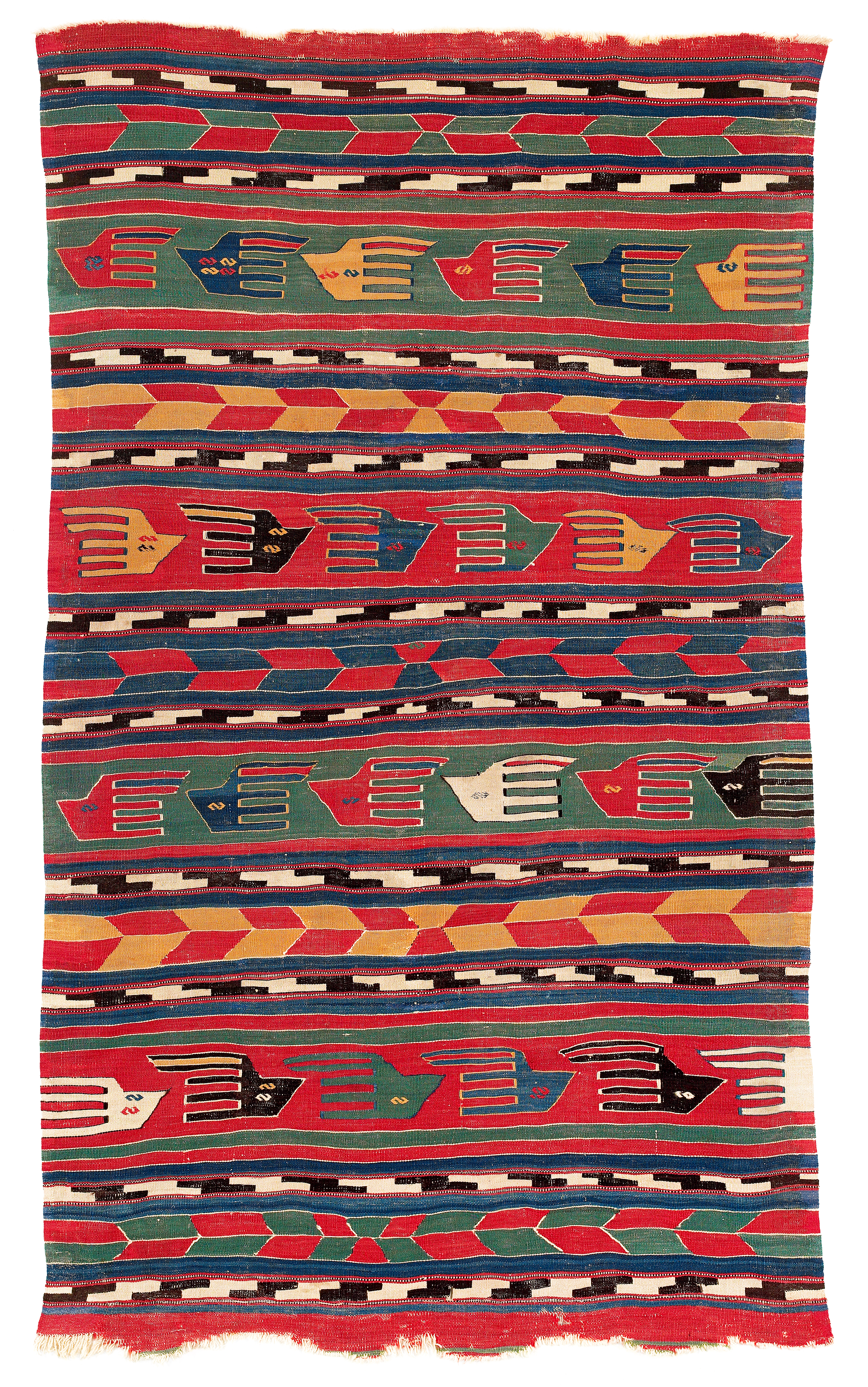 Collection VOK: Anatolia 29 This beautiful kilim was attributed to West Anatolia by Herrmann, who first published it and described it in detail in 1986. Hirsch narrows down the provenance to the Canakkale-Balikesir region, proposing that the kilim was woven by local Yüncü nomads. Judging by the palette of the dividing bands which combine red and blue, red and green and red and yellow, his assumption seems reasonable. Overall colour schemes this bright and brilliant only occur in early examples. The format, too, is characteristic of Yüncü kilims. Composed of horizontal bands of varying width, the design of this borderless kilim continues into infinity beyond the sides of the field. The most striking design feature is the large motifs shaped like combs at one end and angled at the other end that face alternating directions in the four widest bands. Both Herrmann and Hirsch interpret them as zoomorphic figures; they probably depict birds in flight. Two further examples of this rare group are known. – Slight signs of wear, good overall condition. Literature: CASSIN, JACK, Image, Idol, Symbol. Ancient Anatolian Kilims. New York 1989, pl. 3 *** PETSOPOULOS, YANNI, 100 Kelims. Meisterwerke aus Anatolien. Munich 1991, no. 15 Published: HERRMANN, EBERHART, Seltene Orientteppiche 8. Munich 1986, no. 15 *** VOK, IGNAZIO, Vok Collection. Anatolia. Kilims and other Flatweaves from Anatolia. (Text by Udo Hirsch) Munich 1997, no. 29 North West Anatolia, Dimensions 252 x 145 cm AgeLate 18th century Result EUR 26,840.00